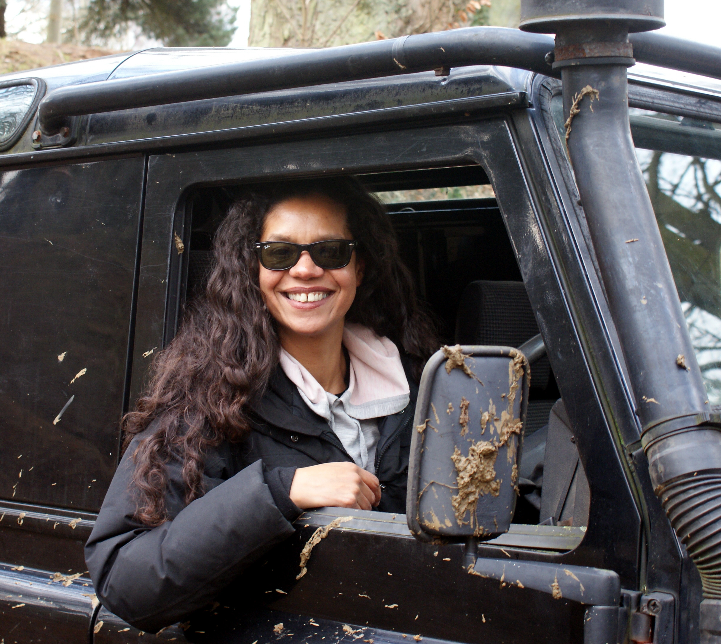 Jaye Griffiths training in a Land Rover Defender prior to competing in the 2013 Macmillan 4x4 UK Challenge. A charity 4x4 rally in aid of Macmillan Cancer Support